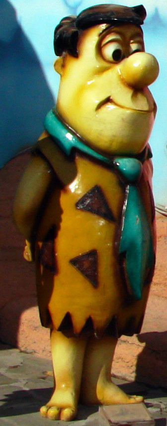 Fred Flintstone figurine at the Ankara Public Amusement Park losslessly cropped from original File:Harikalar_Diyari_Flintstones_06020_nevit.jpg